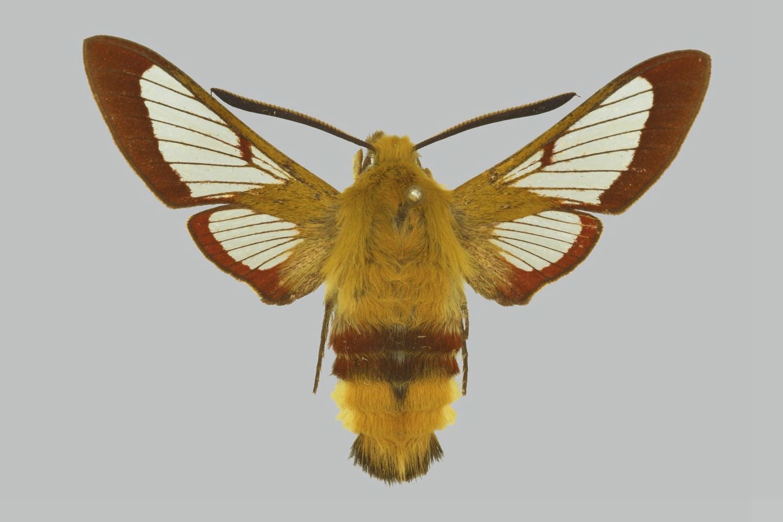 Hemaris fuciformis, male, upperside. United Kingdom, Peterborough, Wansford